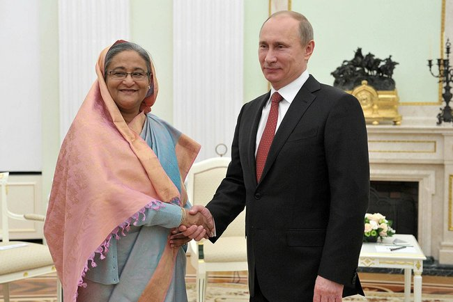 Vladimir Putin held talks with Prime Minister of Bangladesh Sheikh Hasina (Moscow; 2013-01-15).